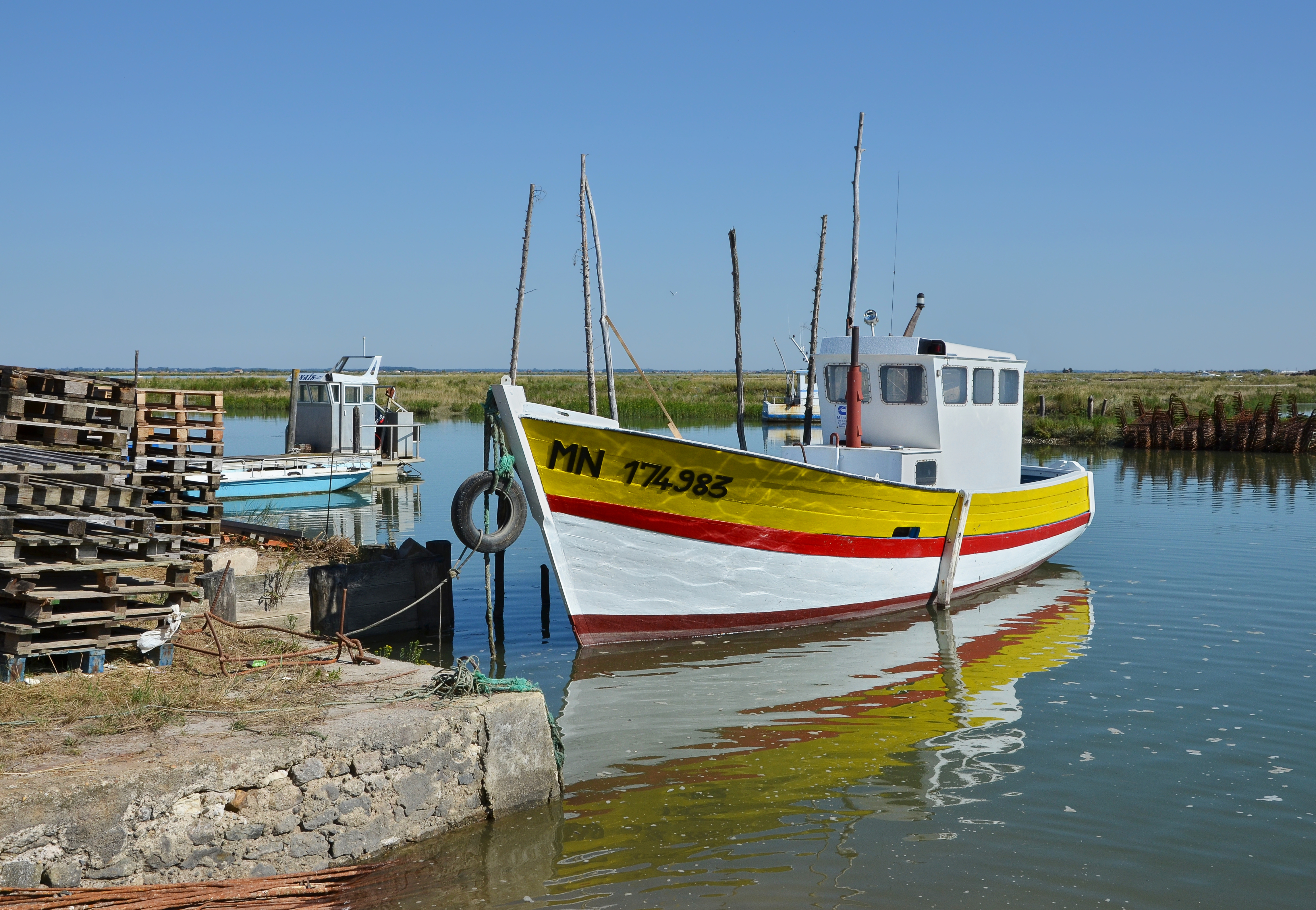 Moored boat in the port of Chatressac, Charente-Maritime, France.